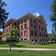 Adams Hall